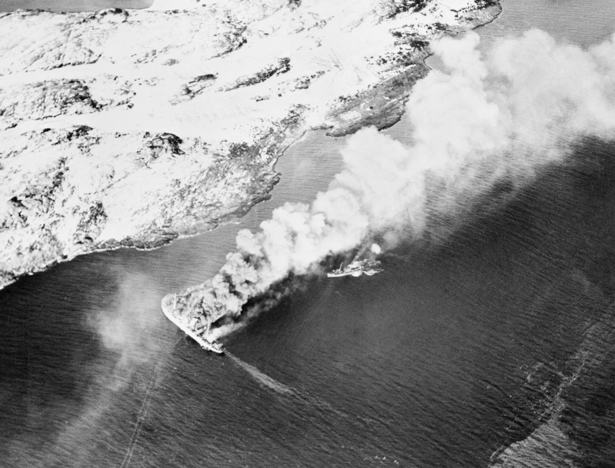 The German-controlled prisoner ship Rigel and a small V-boat escort burning after being bombed and strafed by British aircraft.